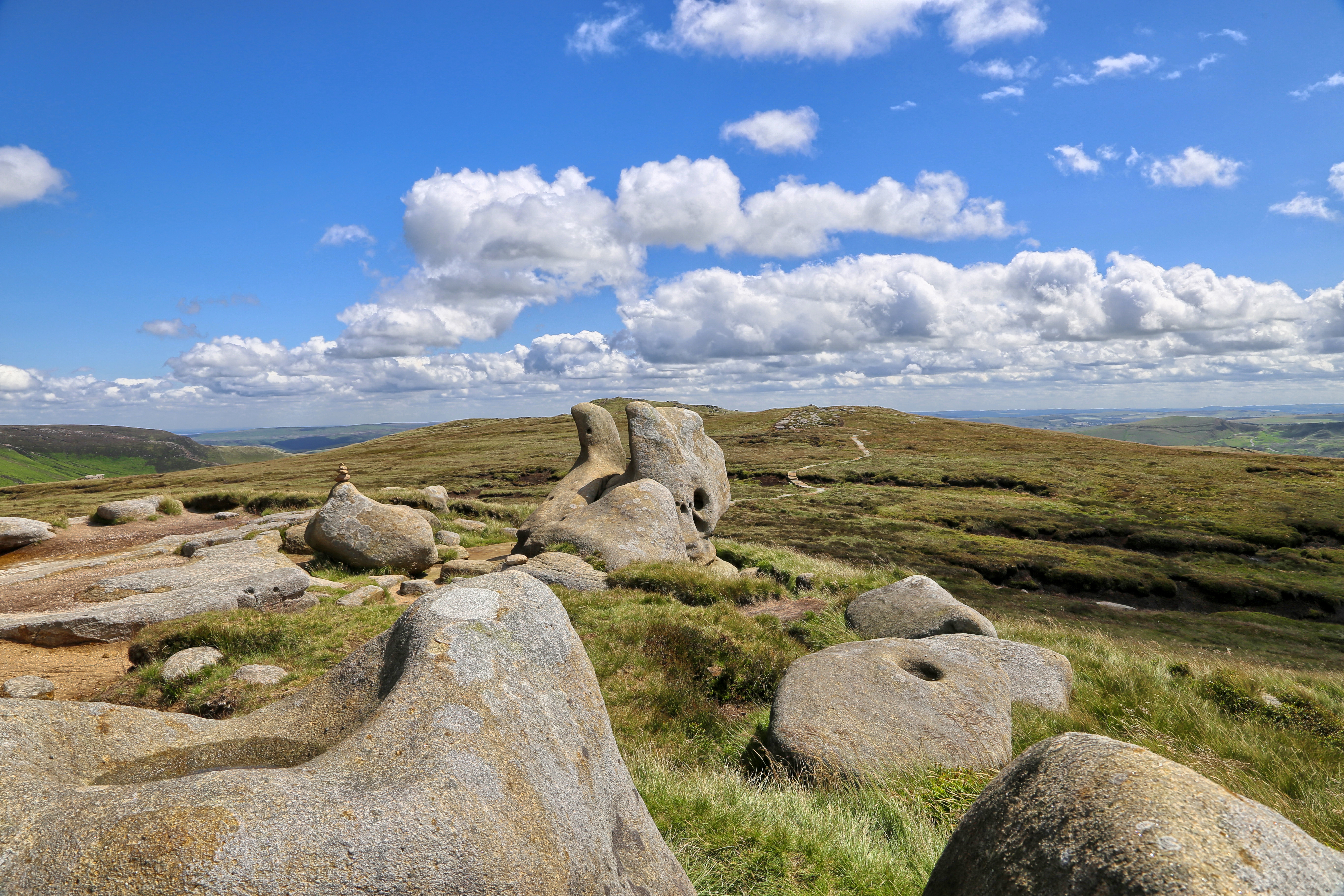 Looking towards Grindslow Knoll Cairn